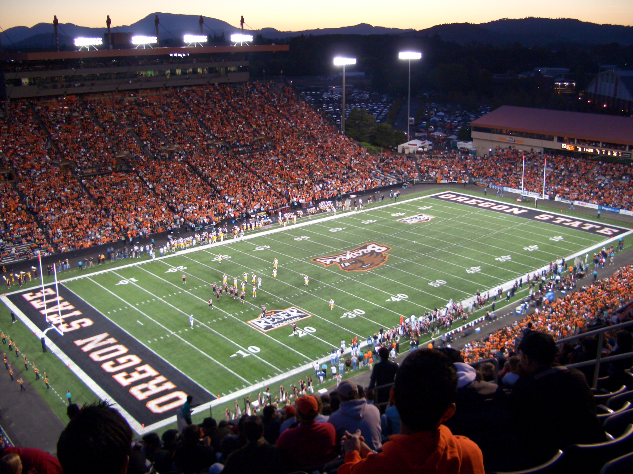 The Oregon State Beavers "Reser" Stadium. Self made at the game OSU vs. Arizona State University. --Elwood j blues